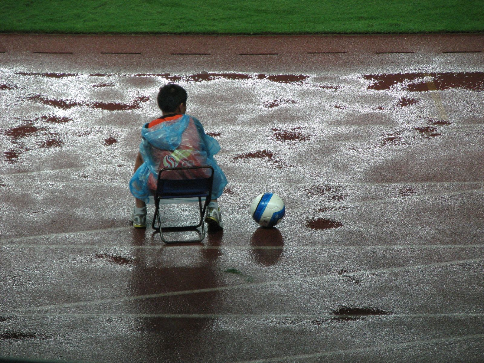 Ballkid at soccer, China